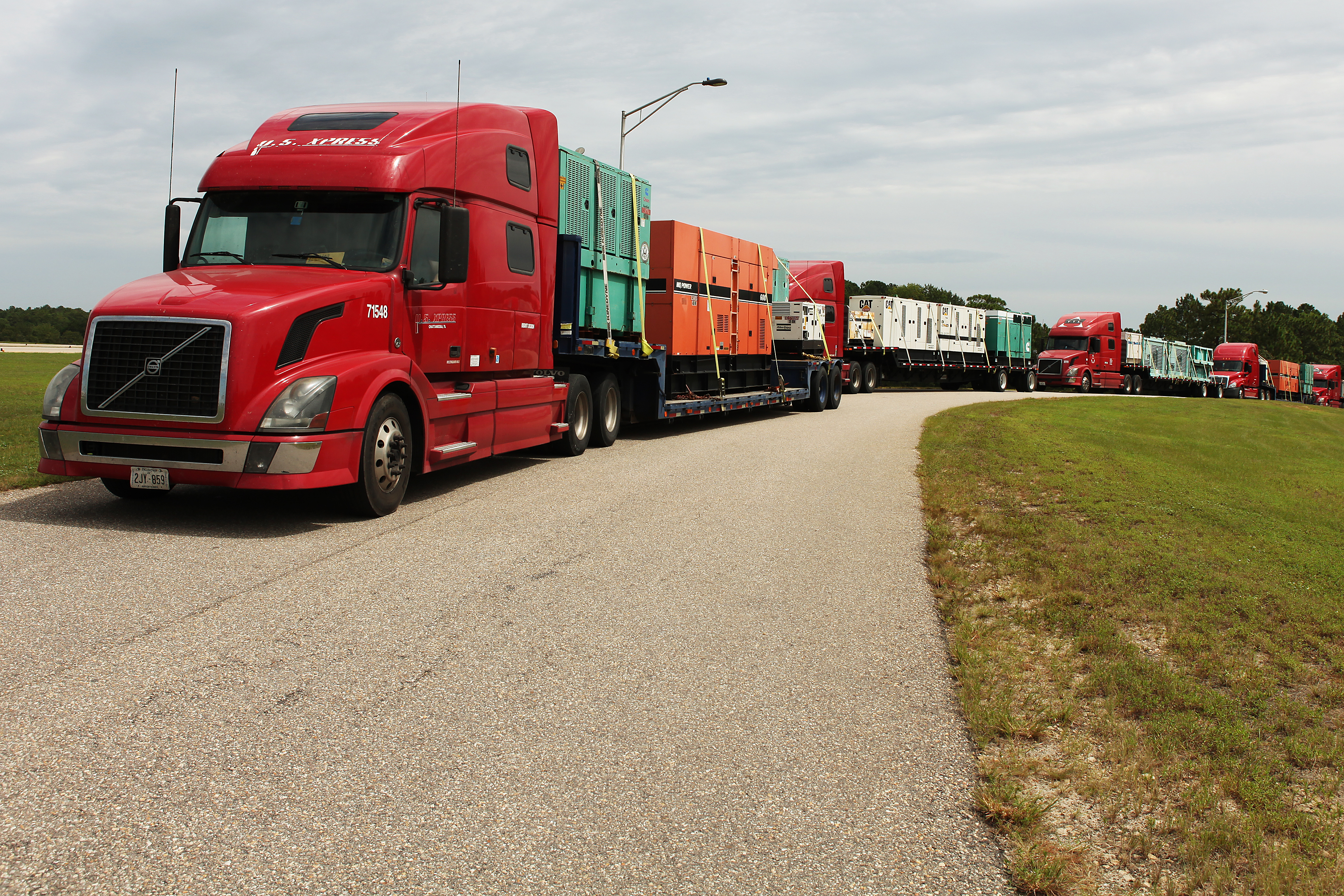 Fayetteville, NC, September 2, 2010 – Trucks deliver food and water sufficient to support approximately 50,000 people for three days. As one part of the emergency management team, FEMA is prepositioning supplies ahead of Hurricane Earl. David Fine / FEMA